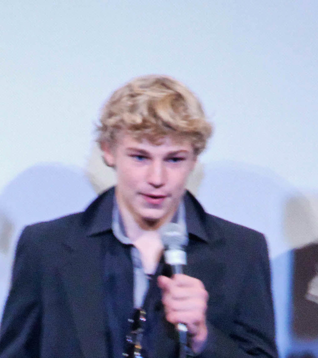 Actors Dylan Minnette, Jimmy Pinchak and Kodi Smit-McPhee